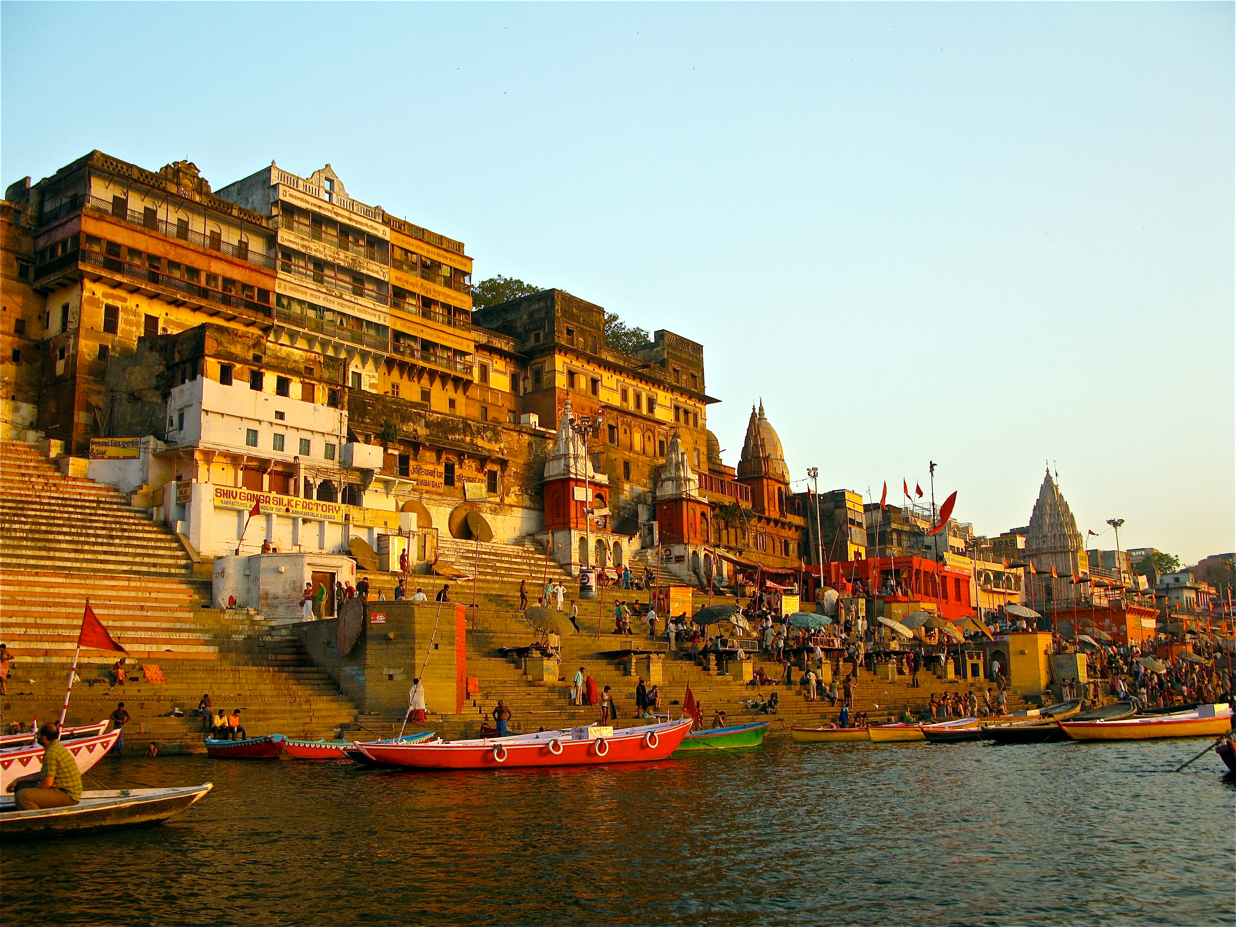 Ahilya Ghat by the Ganges, Varanasi, named after Ahilya Bai Holkar, (ruled 1767-1795) also known as the Philosopher Queen, the a Holkar dynasty Queen of the Malwa kingdom, India.